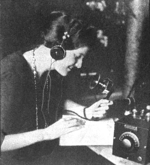 Original caption: "This is Miss Eunice Randall who sends thousands of youngsters to the Land of Nod every Tuesday and Thursday night. The above illustration shows her broadcasting her soothing tales from WGI to a family circle of 1,000 miles."